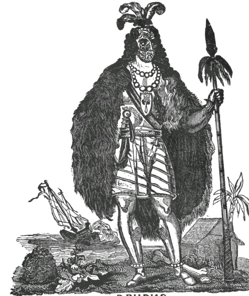 Barnet Burns - the first European to have a Maori tattoo